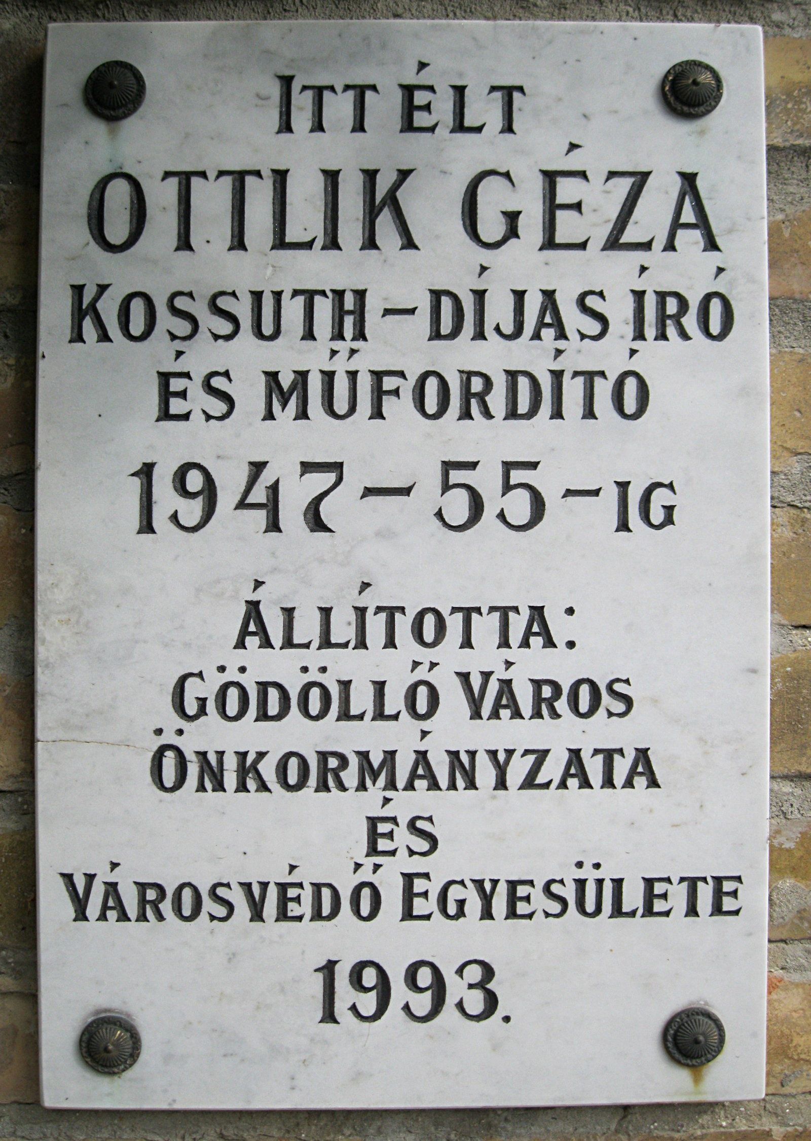 Commemorative plaque of Géza Ottlik in Gödöllő, Köztársaság Street No 63